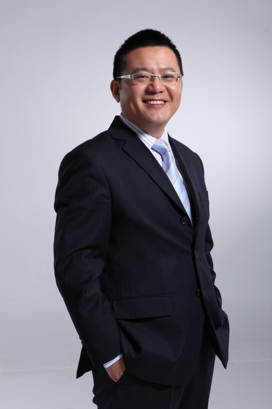 Yu Yongfu, chairman and CEO of UCWeb Inc.